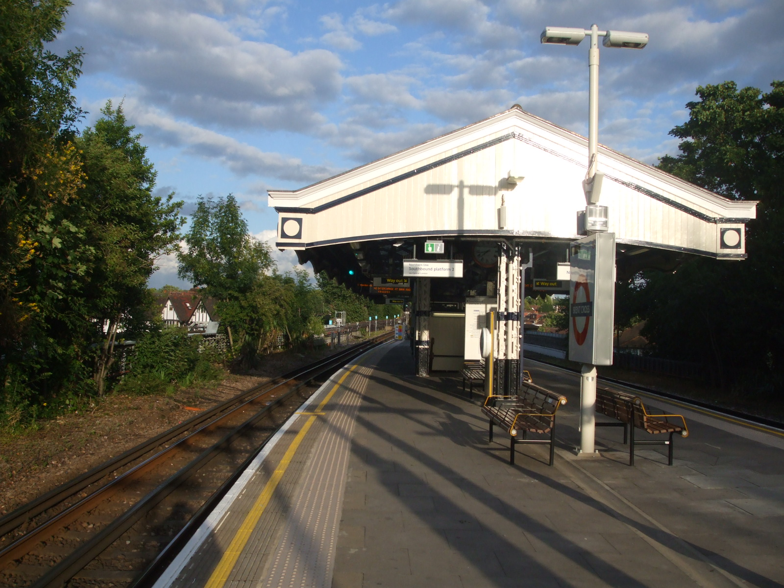 Brent Cross tube station looking south